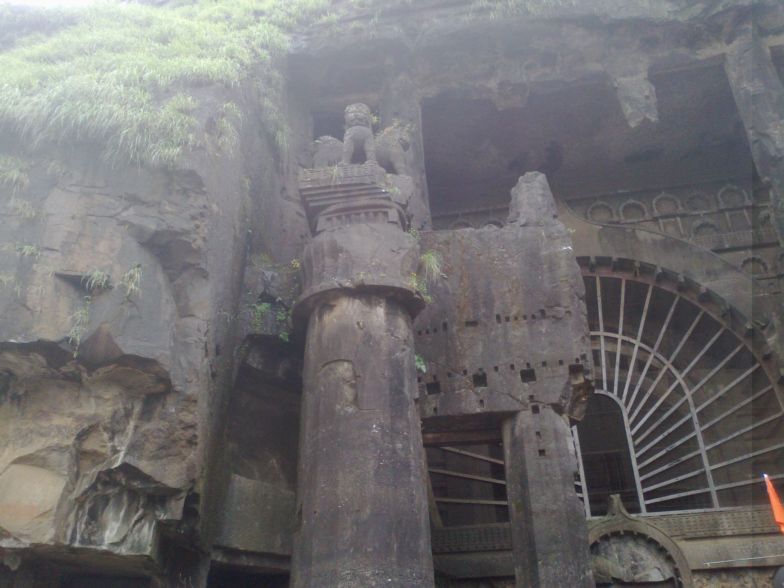 Caves, Temple and inscription (Karla Caves)